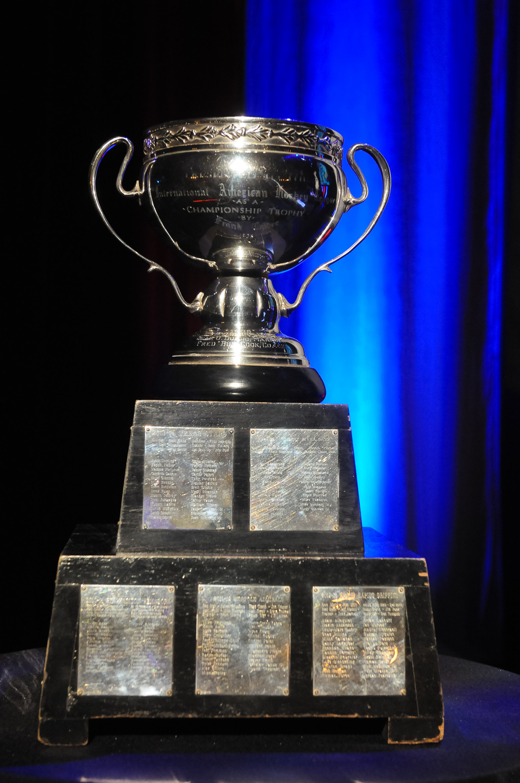 Lindsay A. Mogle/AHL